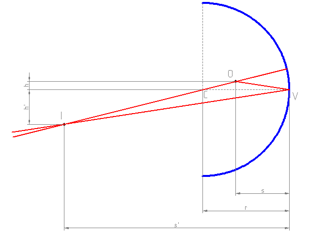 Reflection in a concave spherical mirror of an object between the center and the focus.